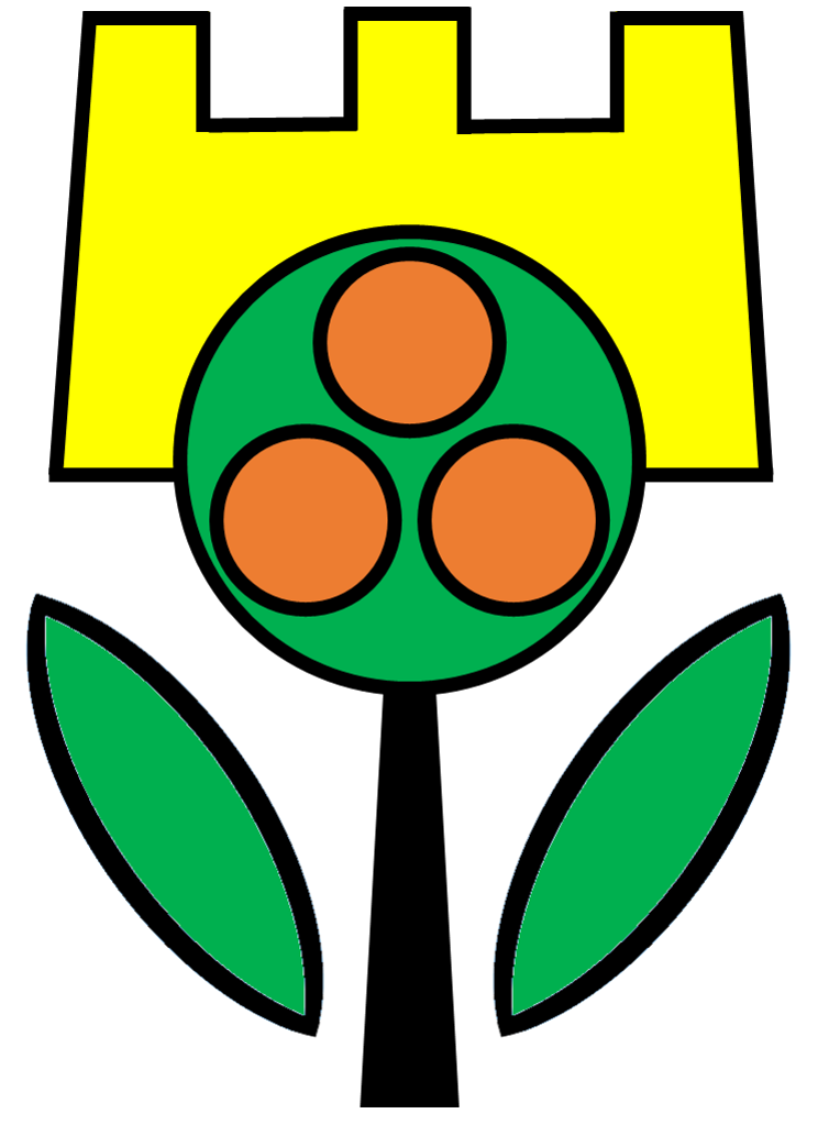 Coat of Arms of the town of Kiryat Ono